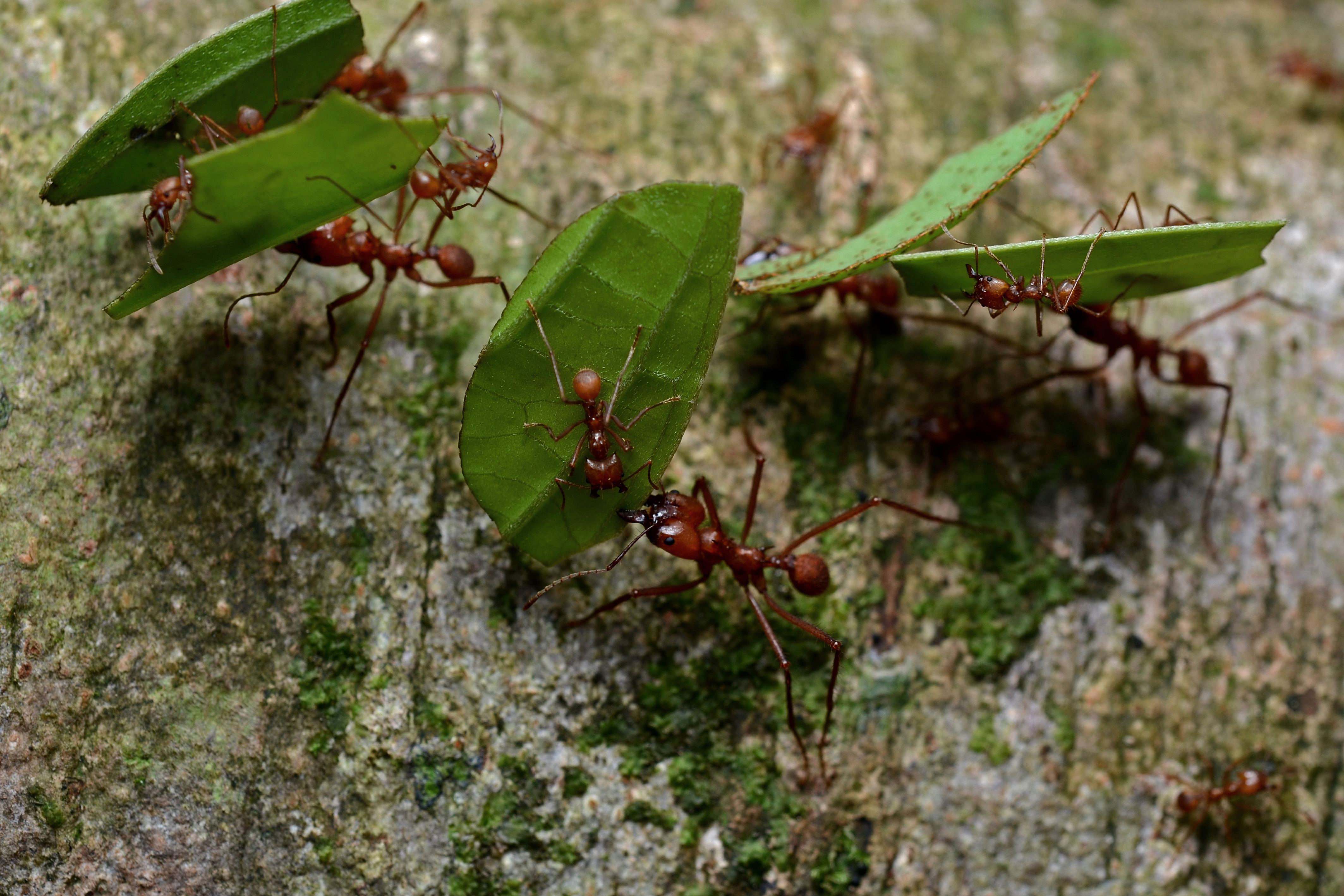 Leaf-cutter ants